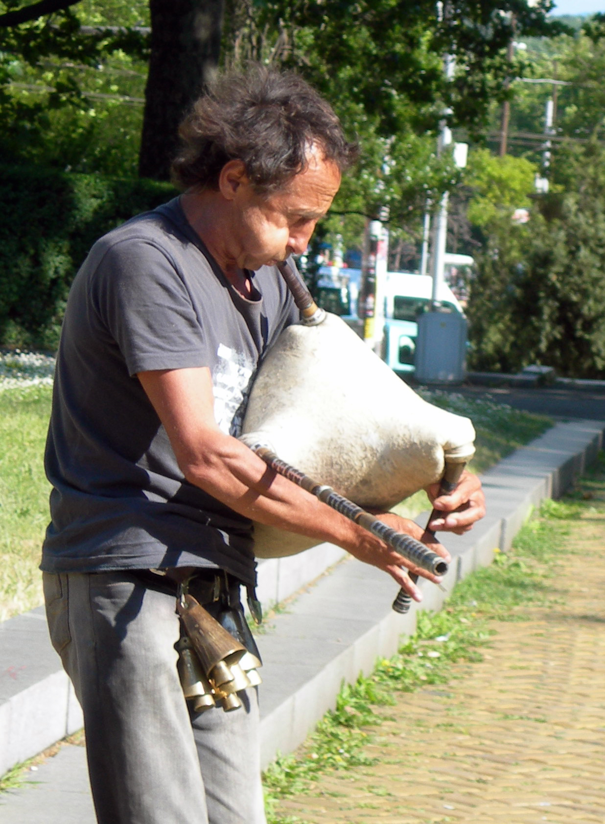 A street bagpiper from Sofia, Bulgaria